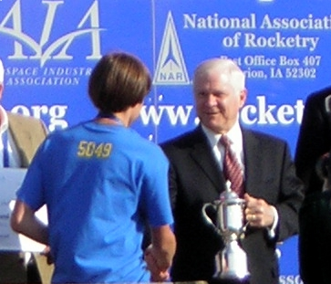 created by me, taken May 19, 2006 at the TARC National Finals.